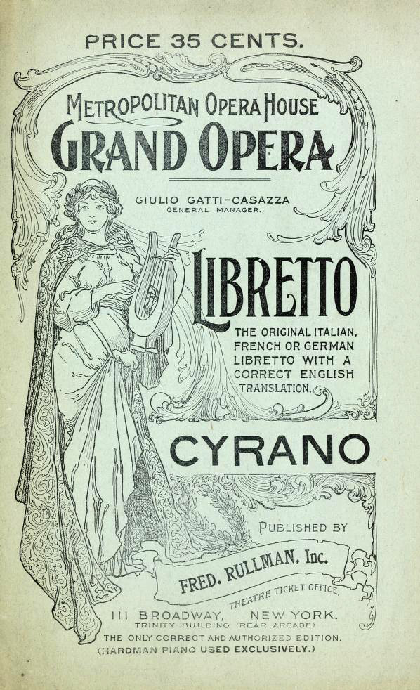 Description: Cover of the libretto for Cyrano composed by Walter Damrosch, printed for the world premiere performance at the Metropolitan Opera, New York. Sourcce: Damrosch, Walter, and Henderson, W. J..Cyrano. Fred Rullman Inc., 1913